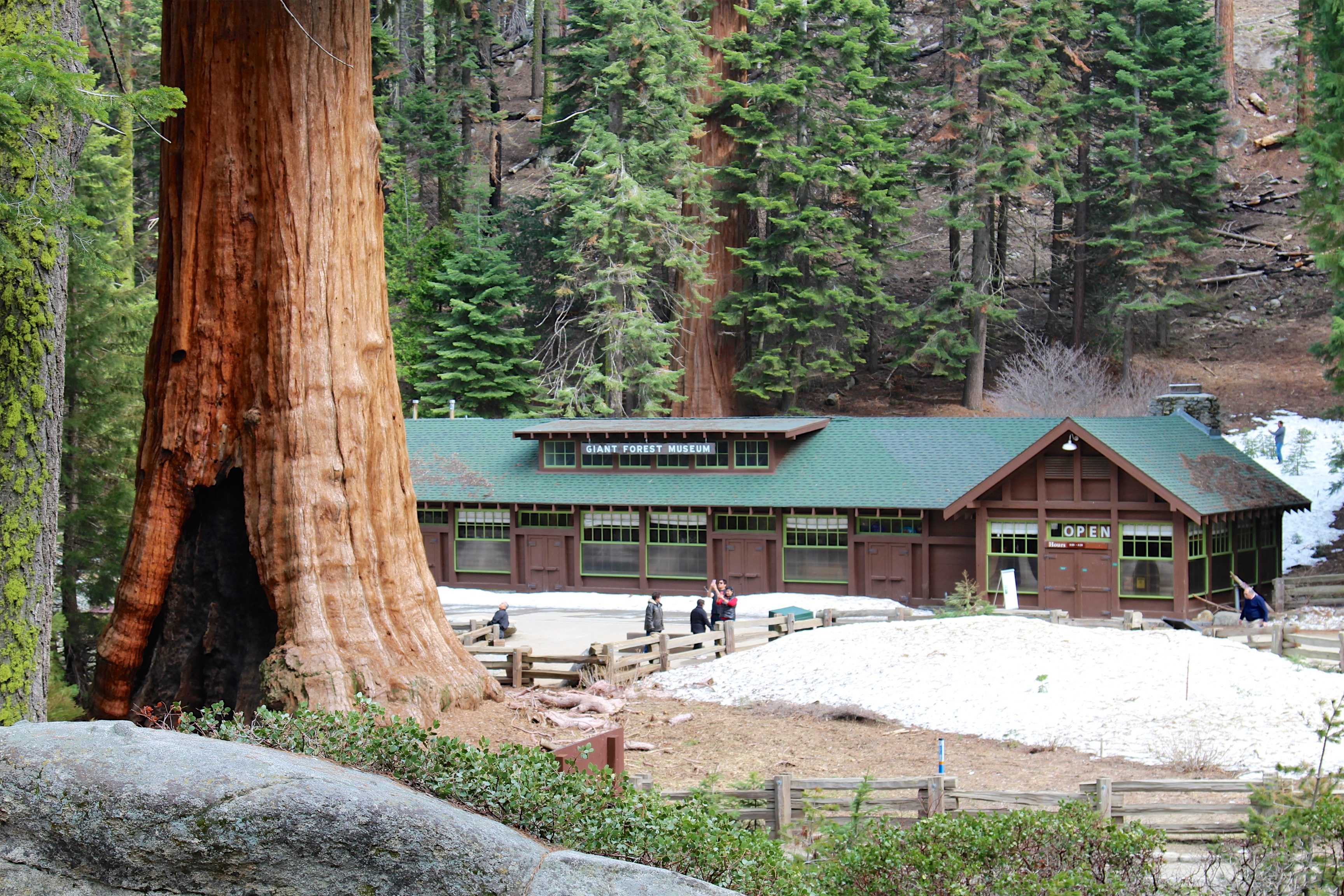 The Giant Forest Museum, located within the Giant Forest Grove of Sequoia National Park.